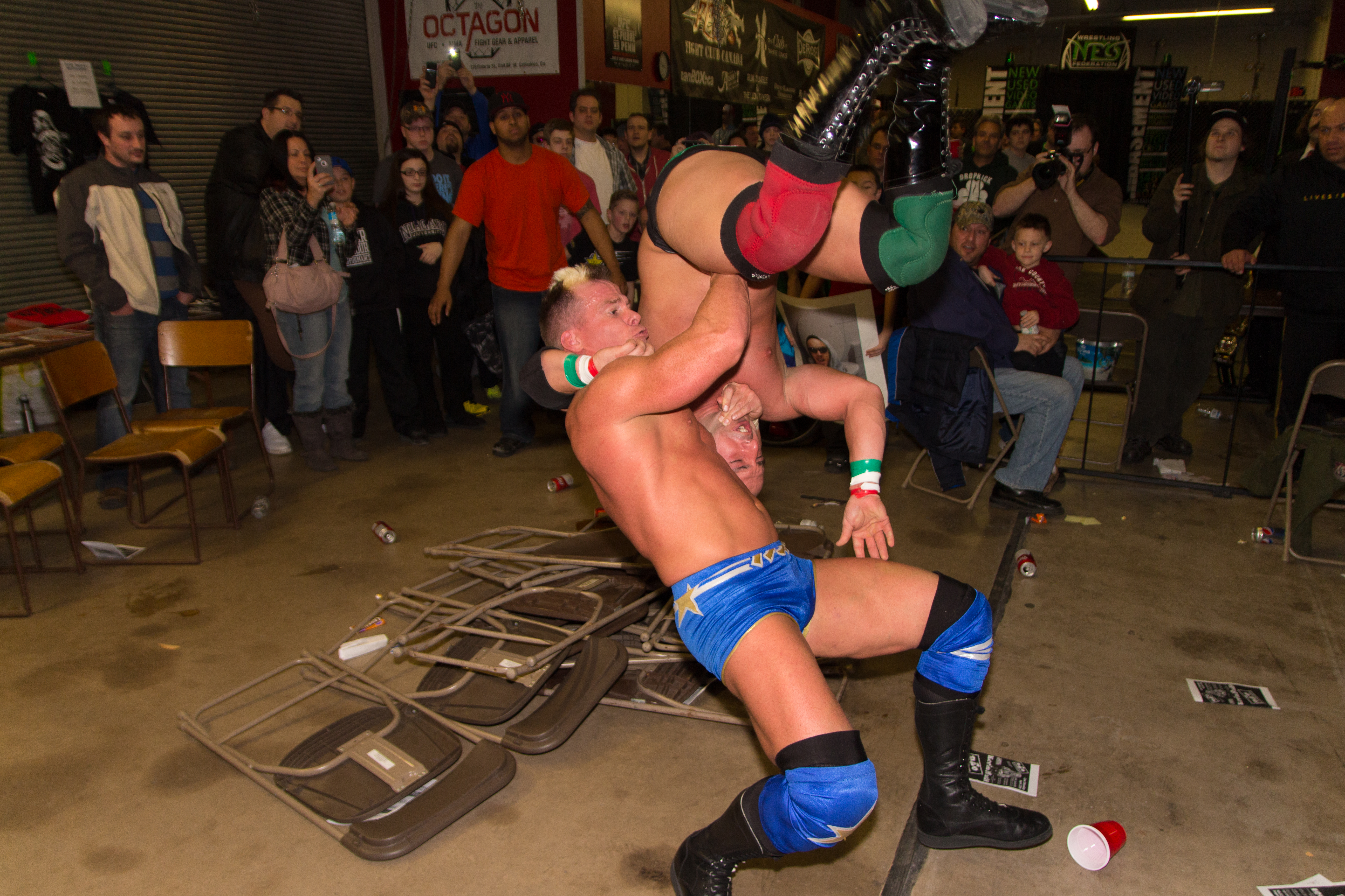 Tyson Dux suplexing Primo Scordino onto a stack of folding chairs